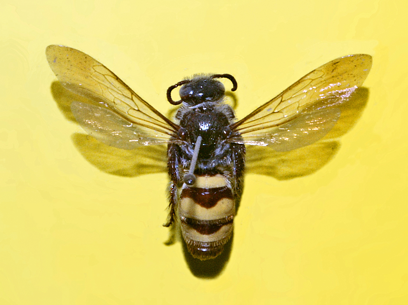 Dielis trifasciata. Museum specimen